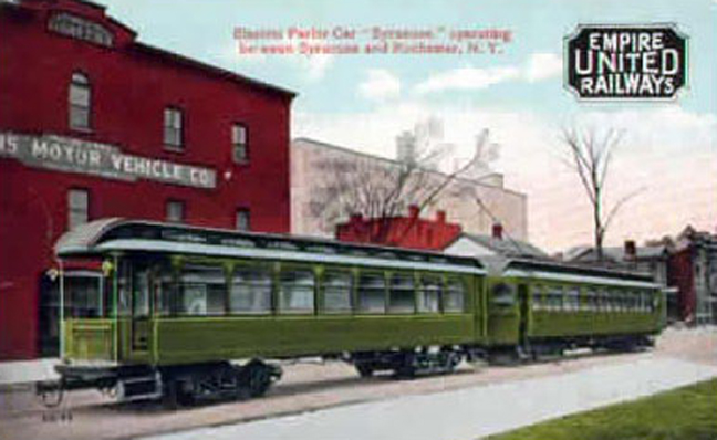 Empire United Railways - Halloran Building - Clinton and Warren Streets in Syracuse, New York - 1912